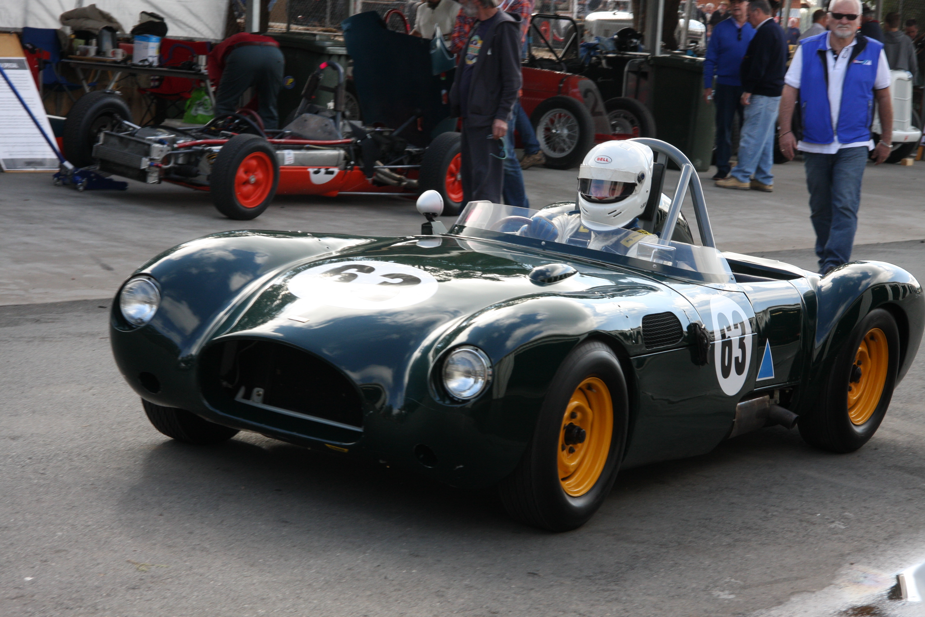 1958 Nota Minx Streamliner at Historic Winton.